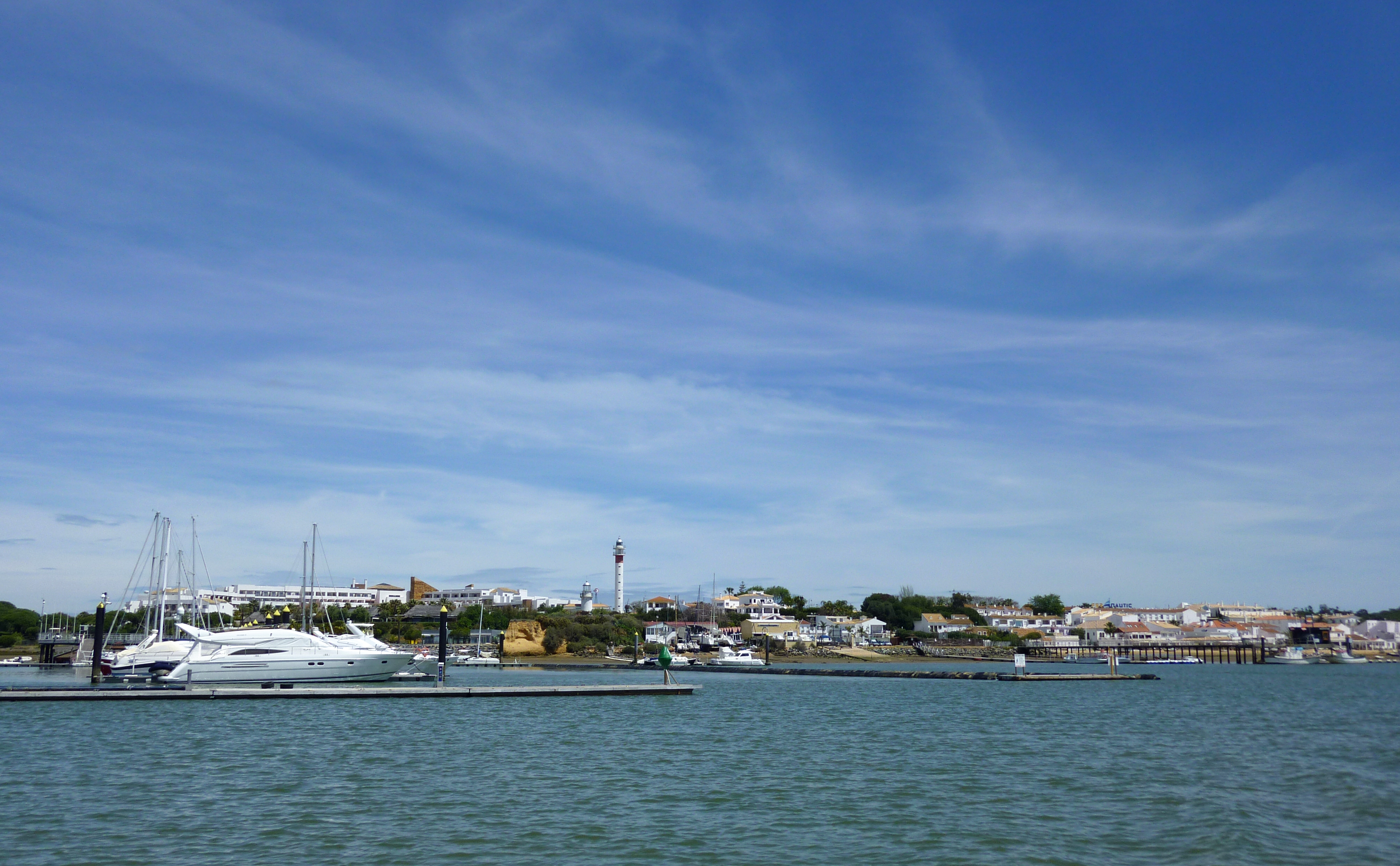 View from Rio Piedras onto El Rompido